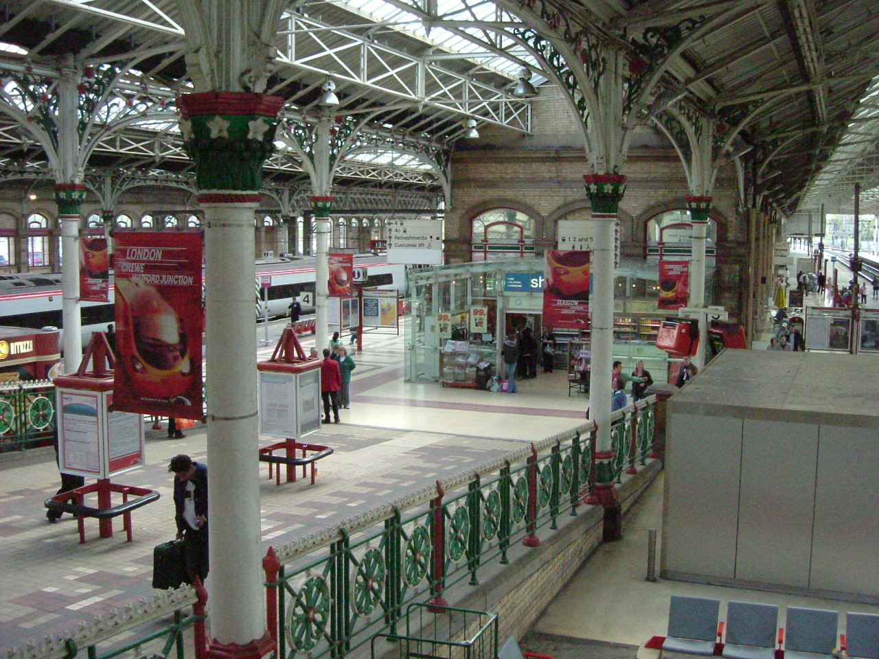 Photograph of Preston Railway Station, Lancashire: depicts station platforms 3 and 4. Photograph taken by and sourced from: Miss_Saff) (top)